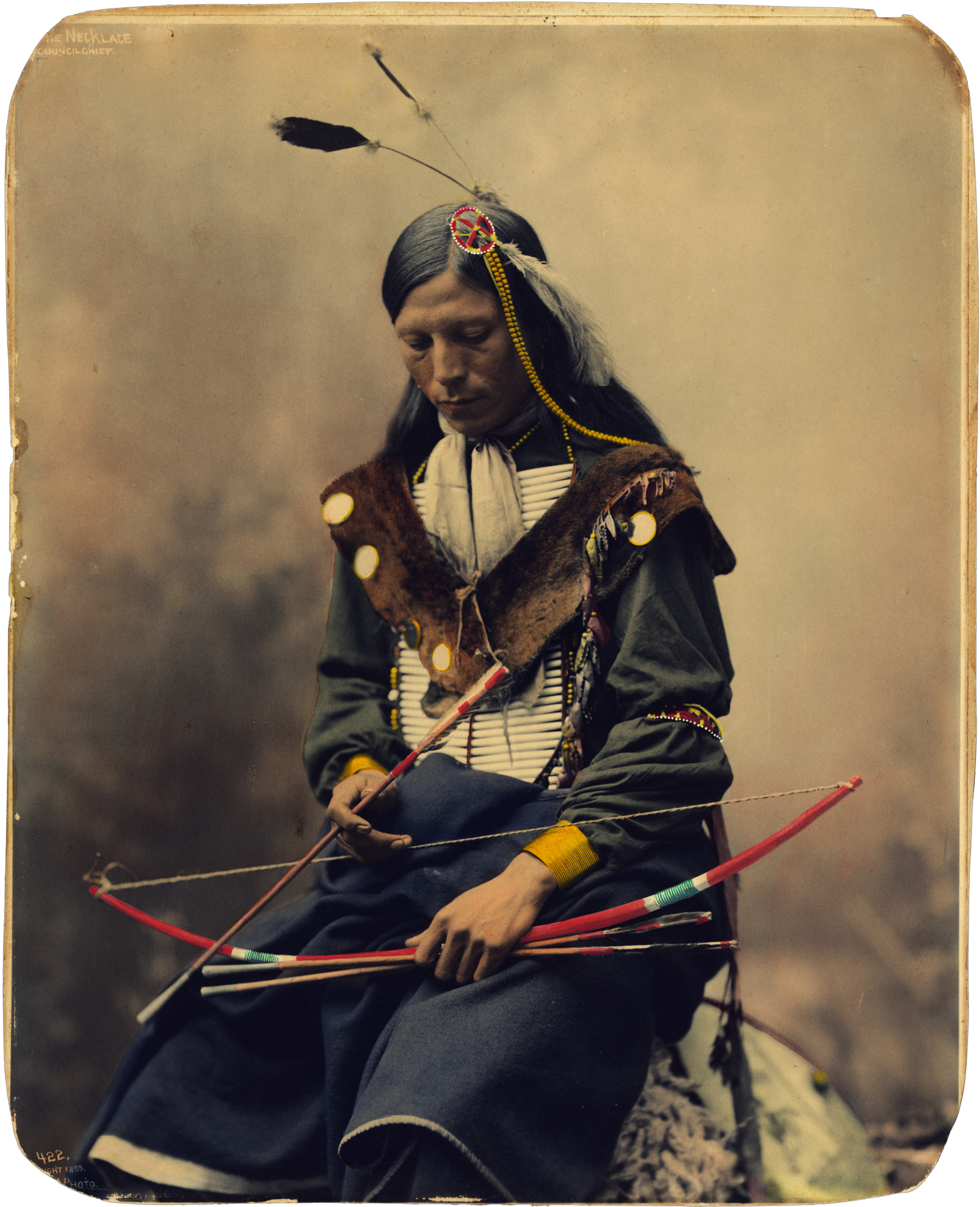 Bone Necklace, council chief, Oglala Sioux. 1 photographic print : platinum, hand-colored ; 15.5 x 12.5 in.